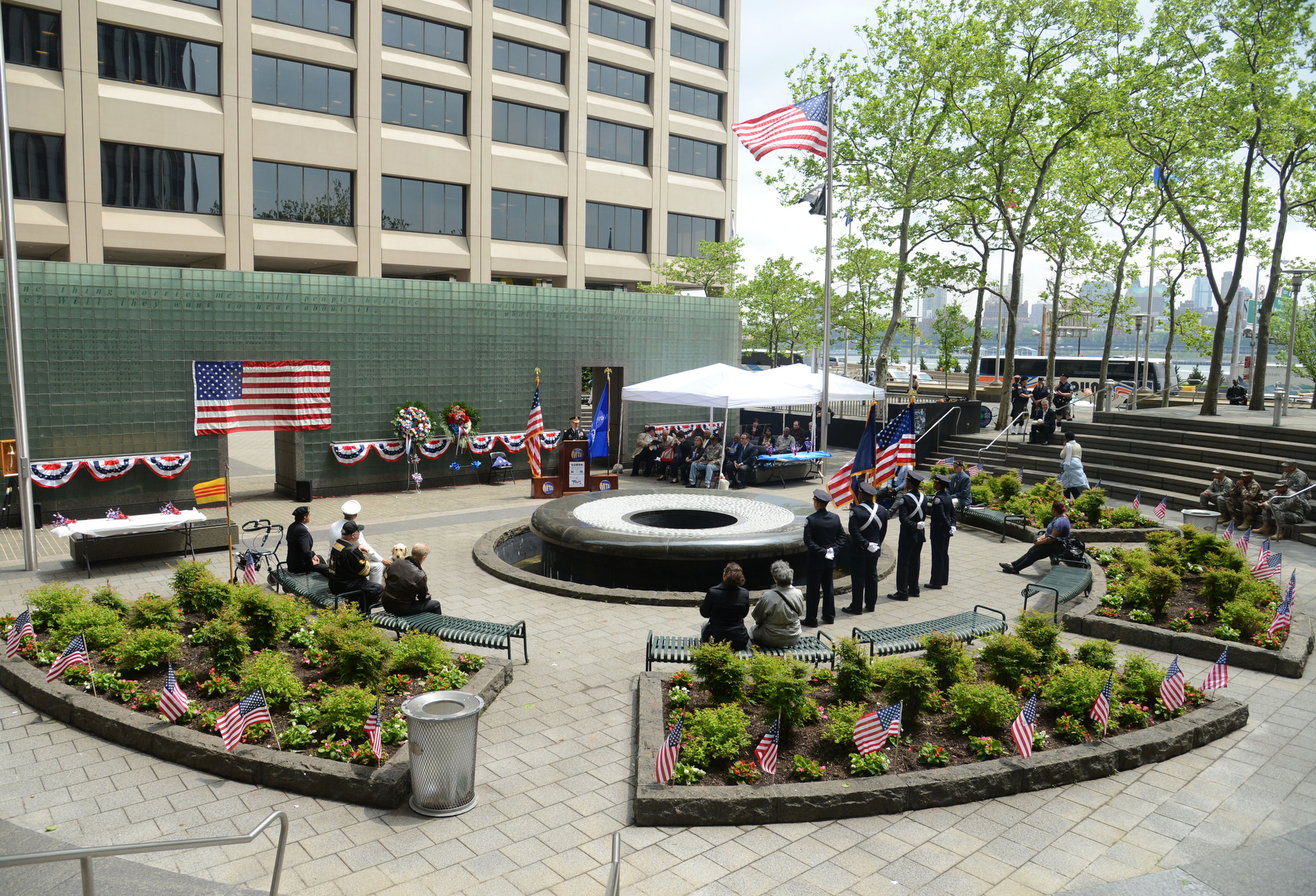 The Transit Veterans Association held its annual Memorial Day ceremony on Fri., May 23, 2014 at Vietnam Veterans Memorial Park in lower Manhattan to remember the 155 employees and all Americans who lost their lives in combat. Photo: Marc A. Hermann / MTA New York City Transit